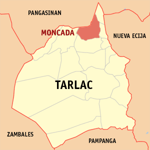 Map of Tarlac showing the location of Moncada